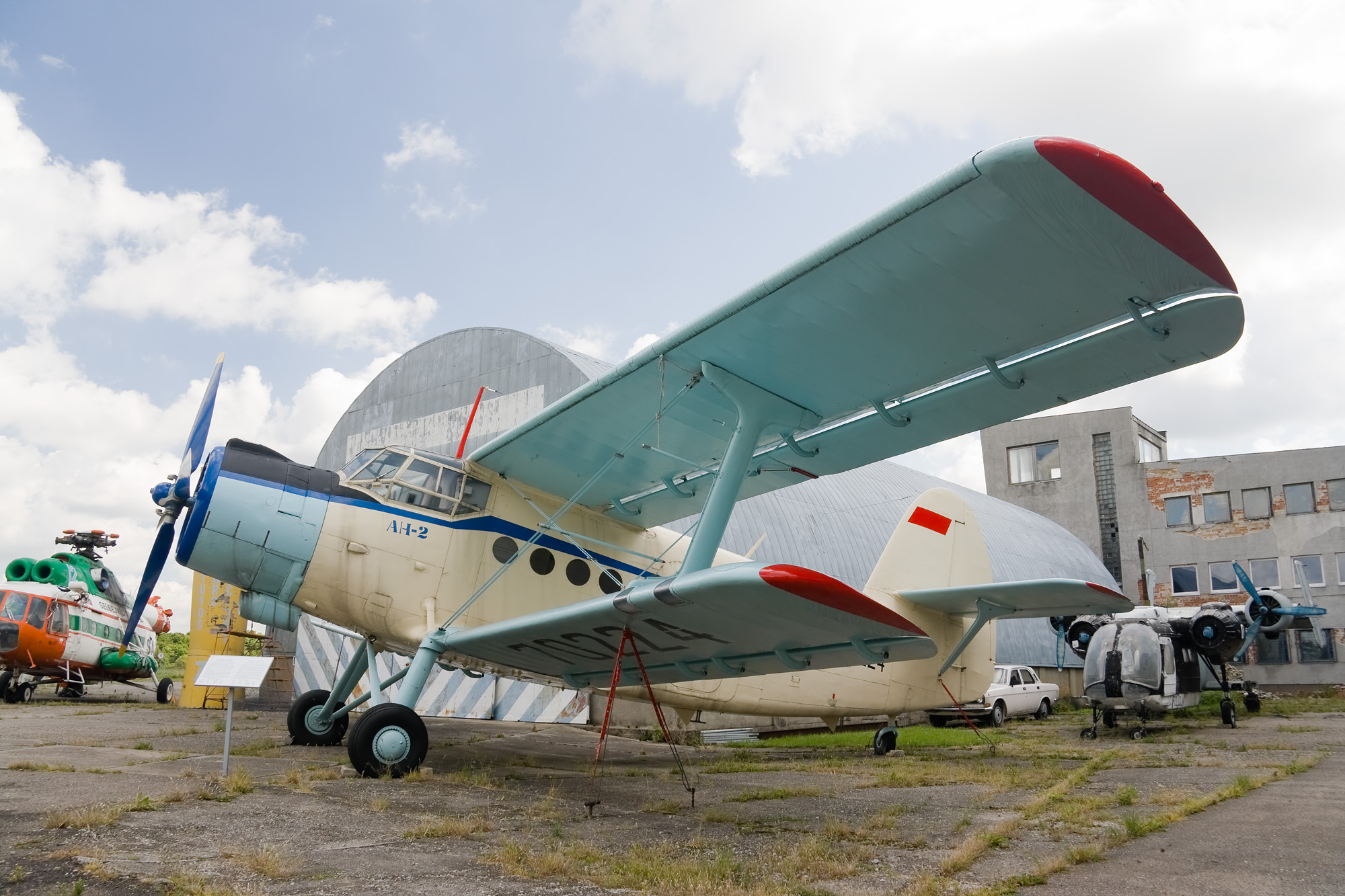 An-2 at Aleksotas airport (S. Dariaus / S. Gireno) (EYKS), Kaunas